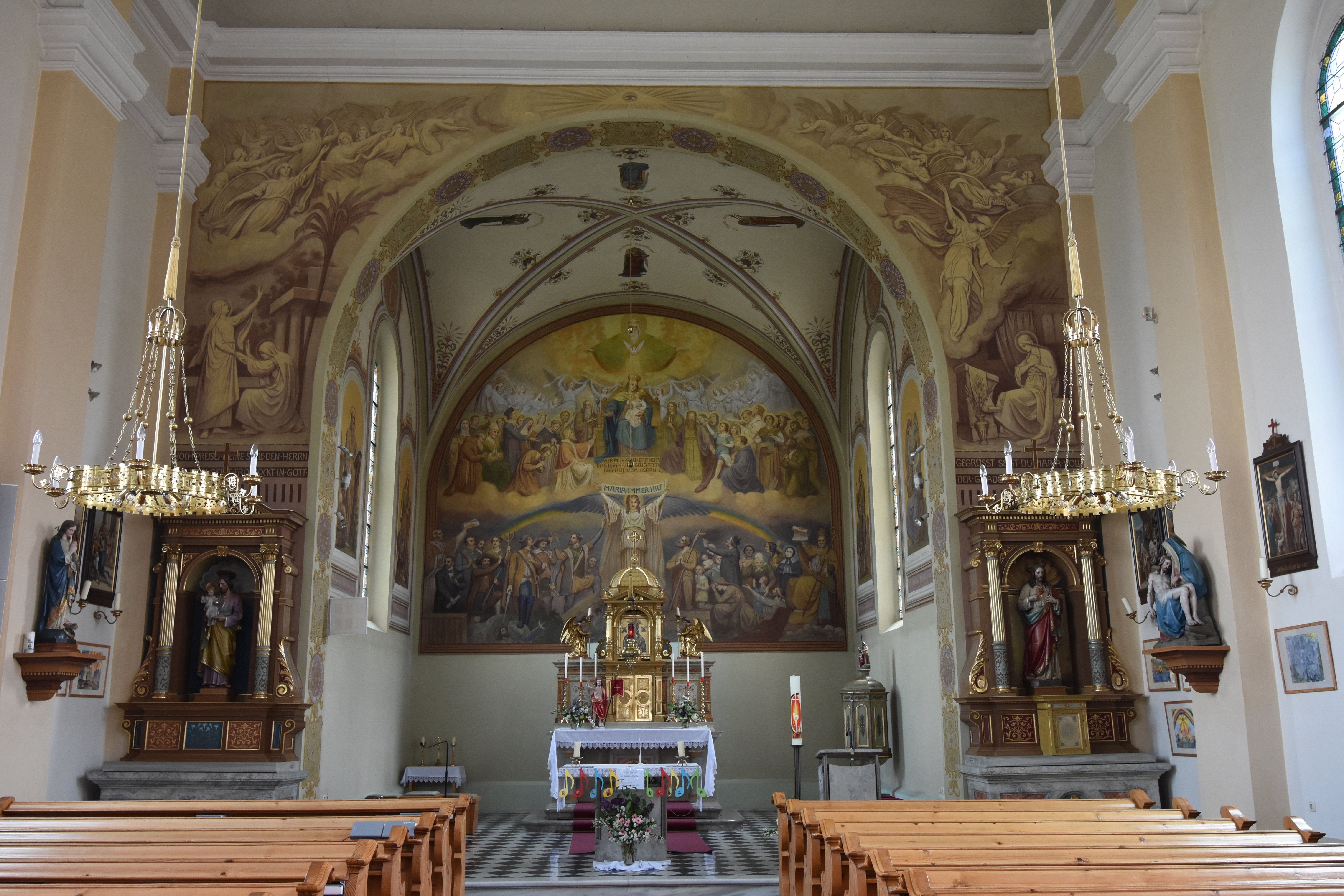 Church Oberhaag - Interior